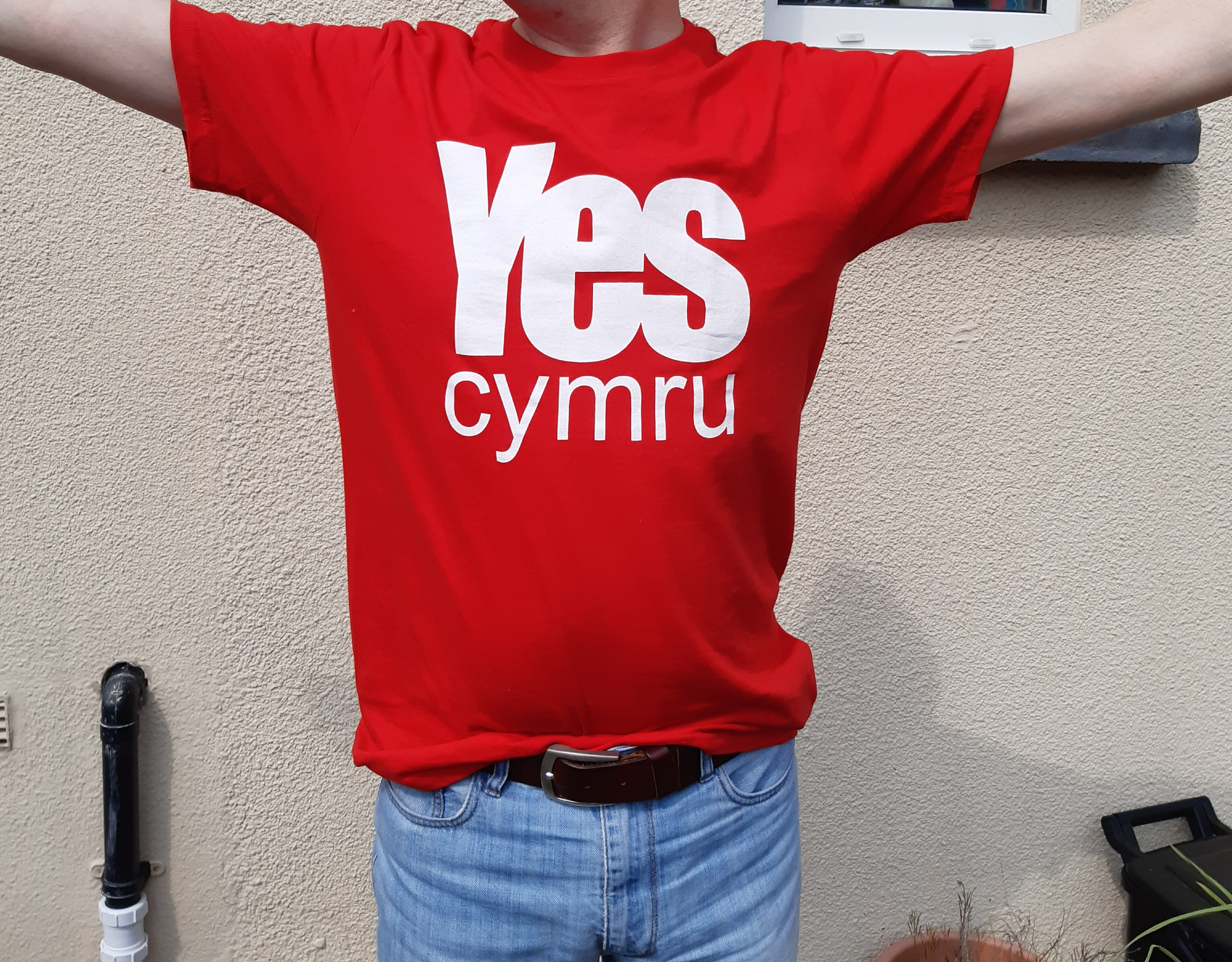 YesCymru T-shirt, Wales